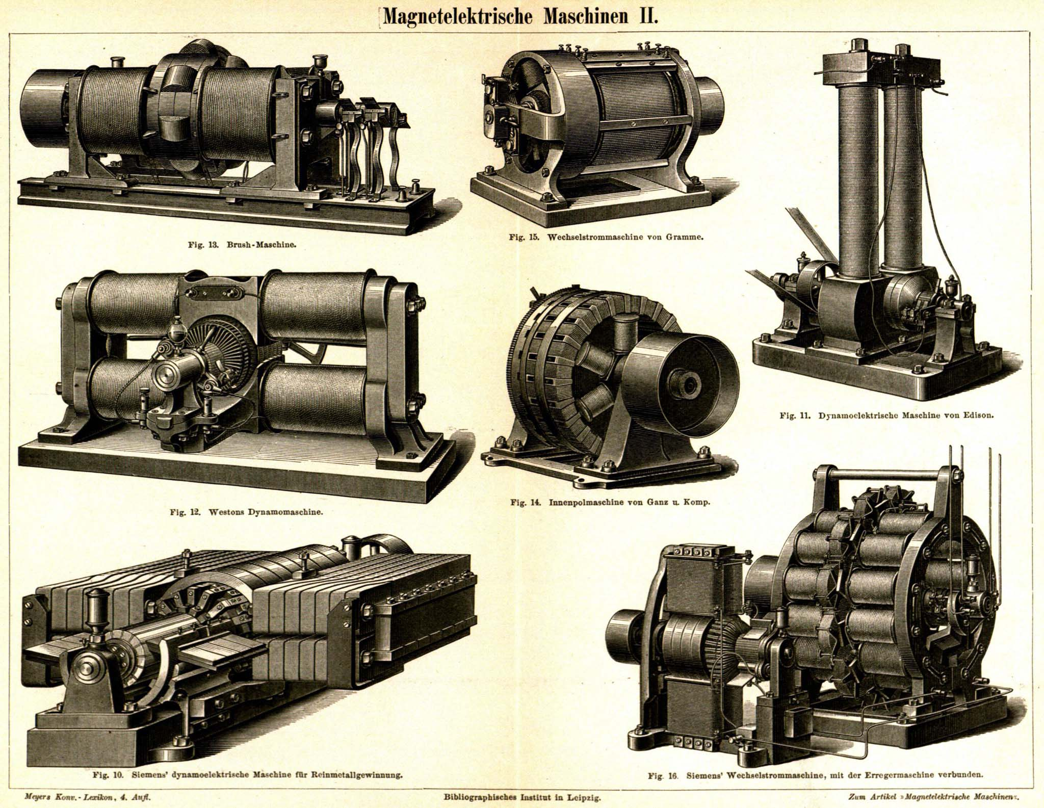 Early electric motors II.